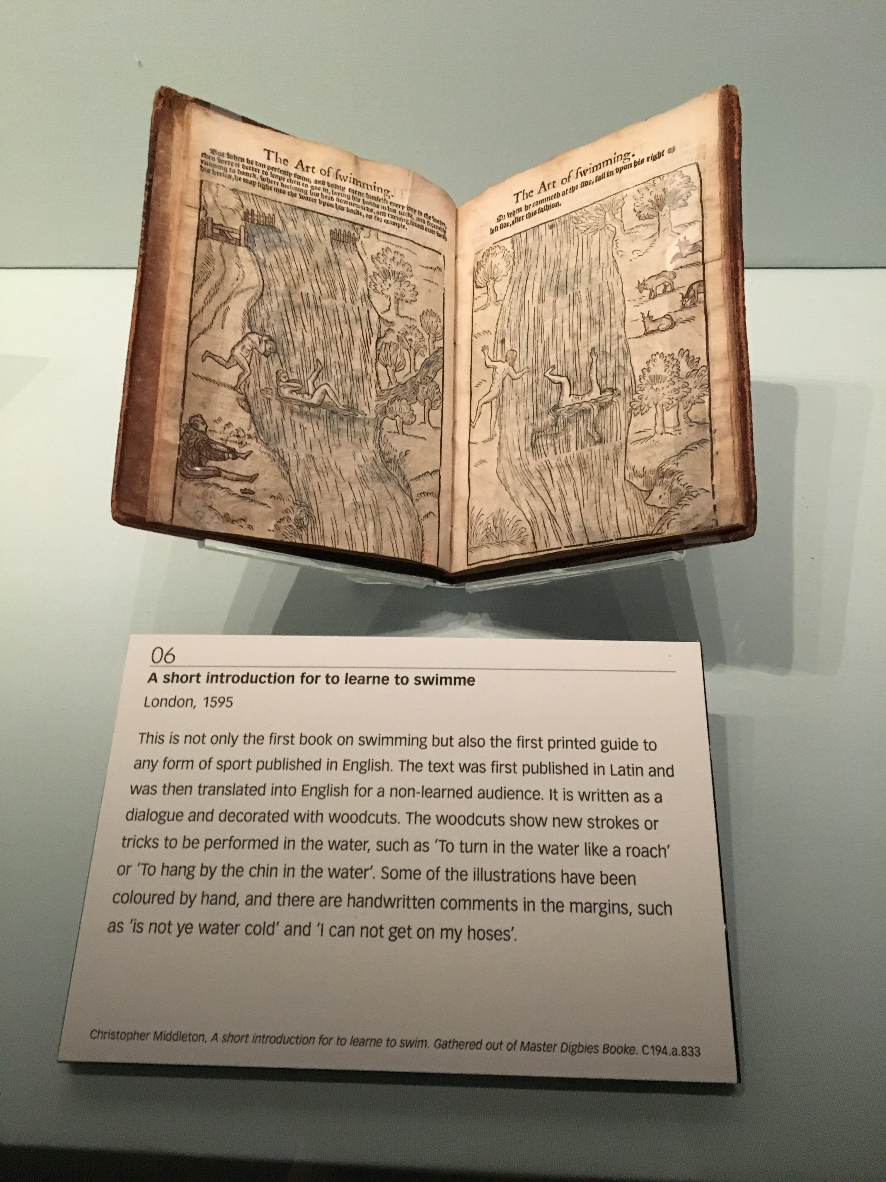 History of swimming